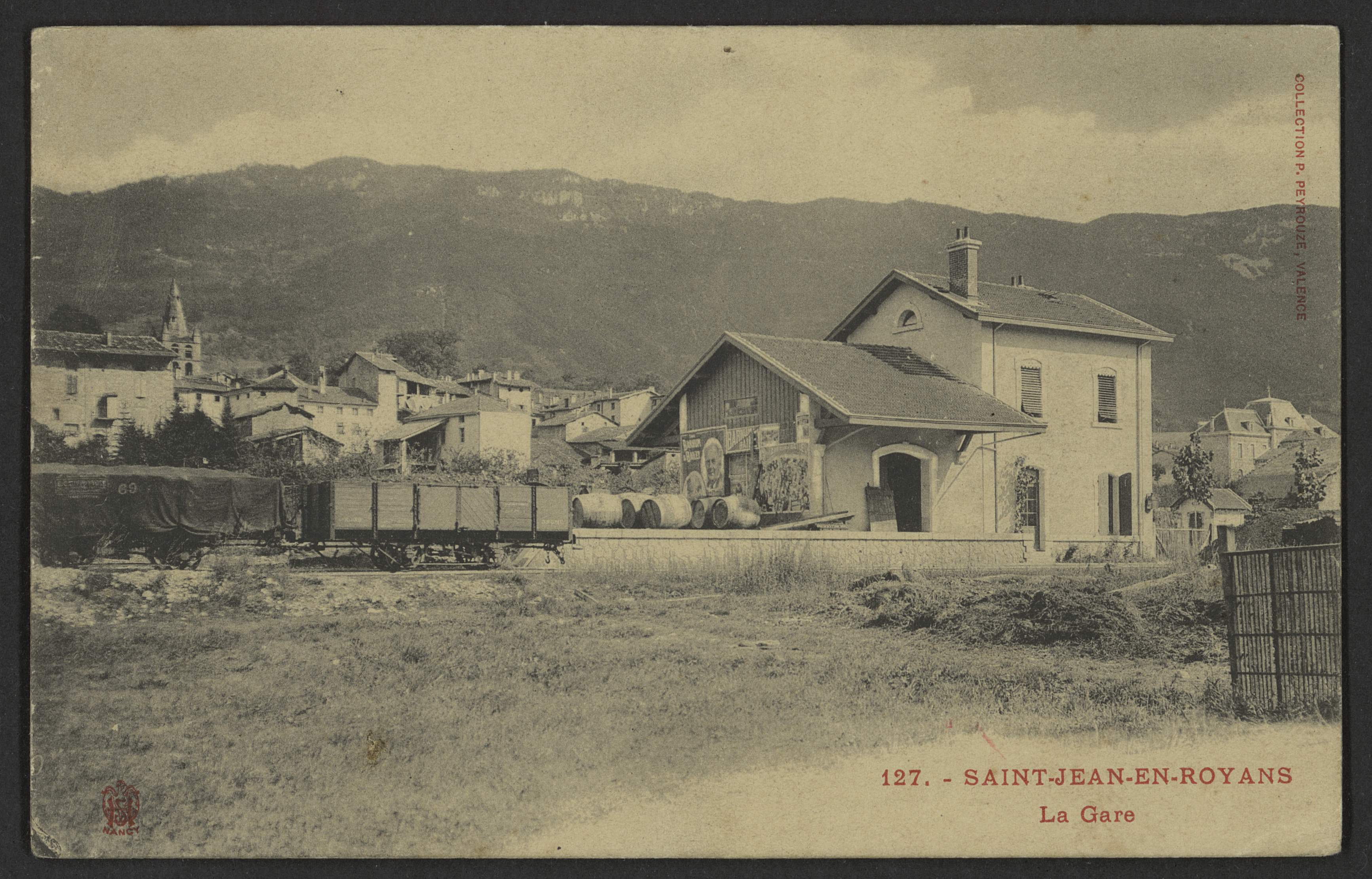 CA 1900